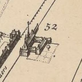 Detail of 1695 map by J. Laboureur & Josse van der Baren, Bruxella, nobilissima Brabantiæ civitas